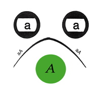 Ouchterlony double immuno diffusion pattern of non-antigen identity. Recompiled and formatted by 2006 IMM435 Class of the University of Toronto